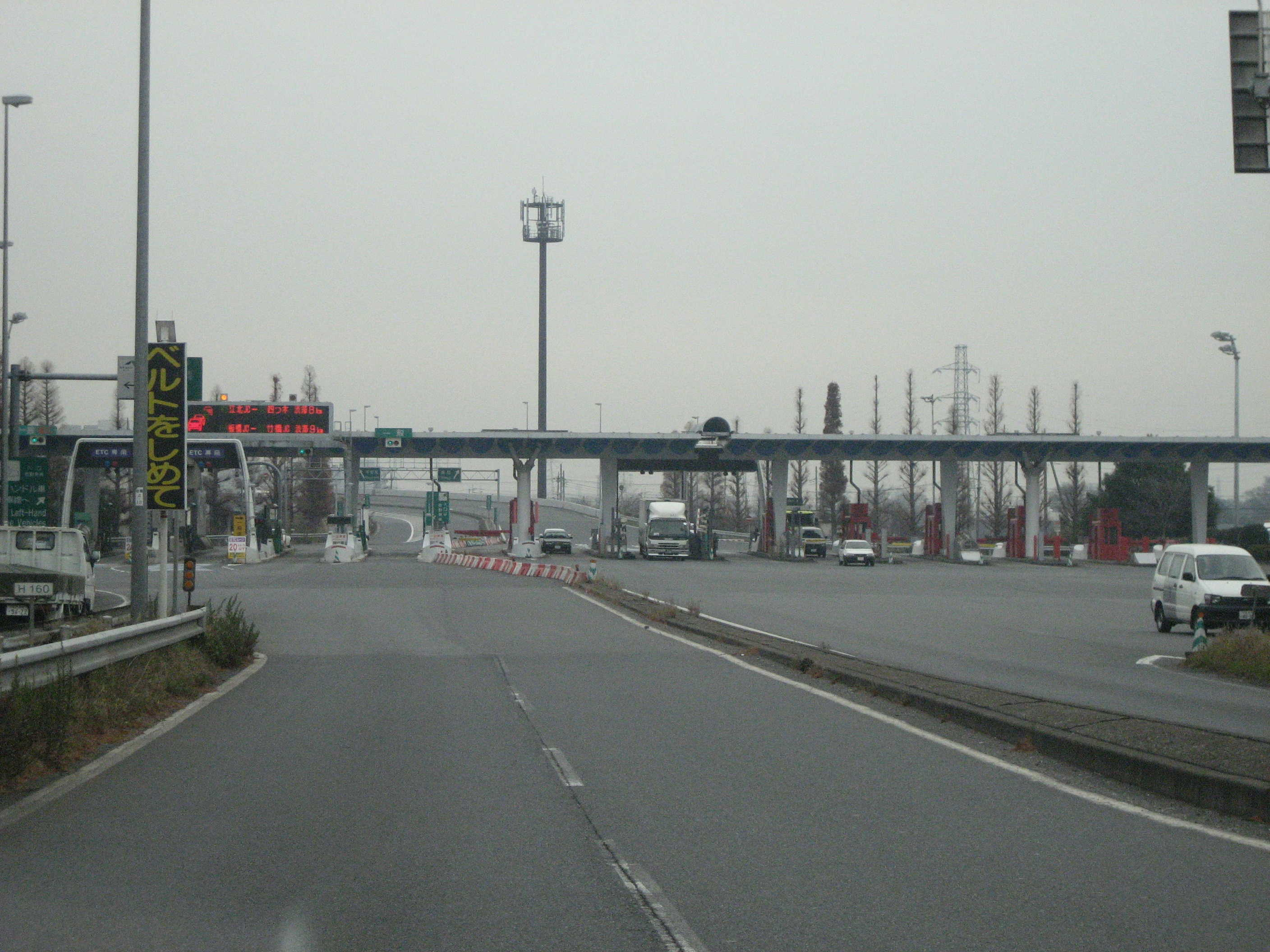 Toll gates at Iwatsuki Interchnage